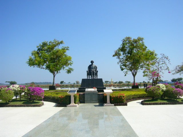 Srinagarindra statue at the park adjacent to Lake Nong Han near Sakon Nakhon, Thailand.